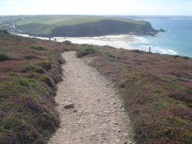 Coast path at Trenance Point Looking southwards across Mawgan Porth beach as the path carves through the flowering heather and gorse.